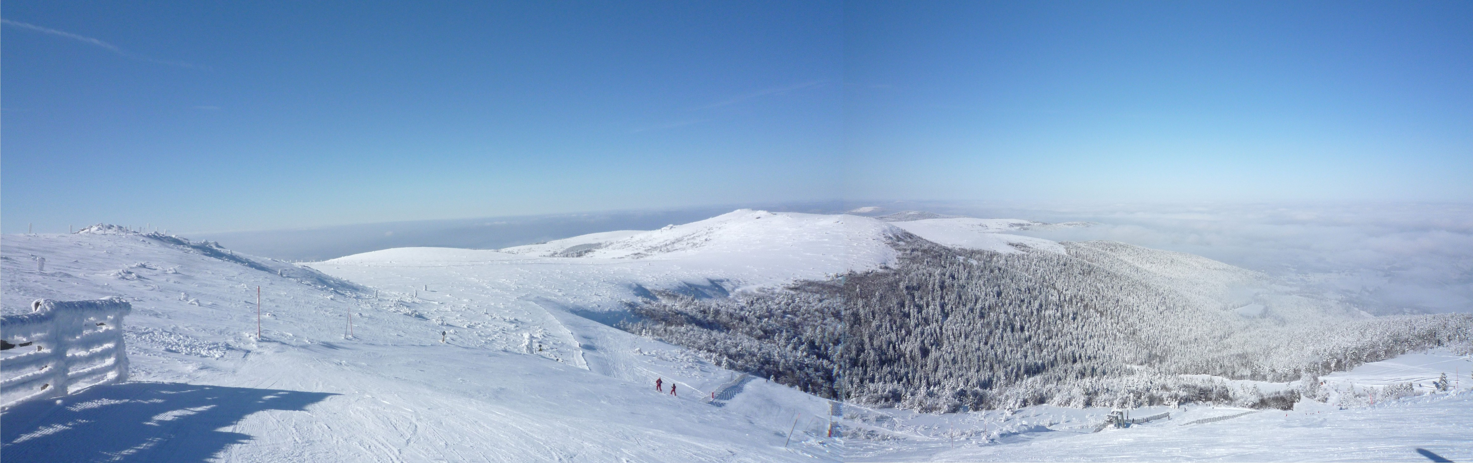 Panoramic of Chalmazel Ski Resort (France, Loire)